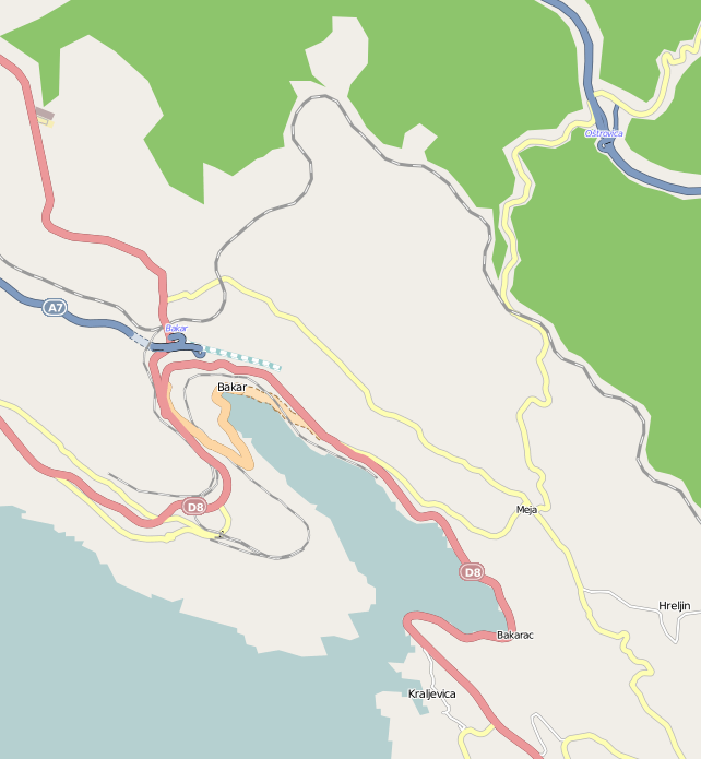 Map of Barkar at Bay of Bakar / Croatia / Adriatic Sea and the places Meja, Hreljn, Bakarac and Kraljevia, at 1 August 2010 at the open mapping project OpenStreetMap. This map may be incomplete, and may contain errors. Don't rely solely on it for navigation.